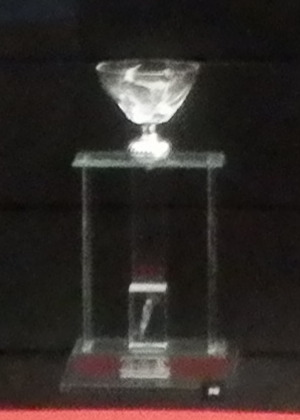 Seen are volleyball, futsal, basketball, football and roller hockey titles